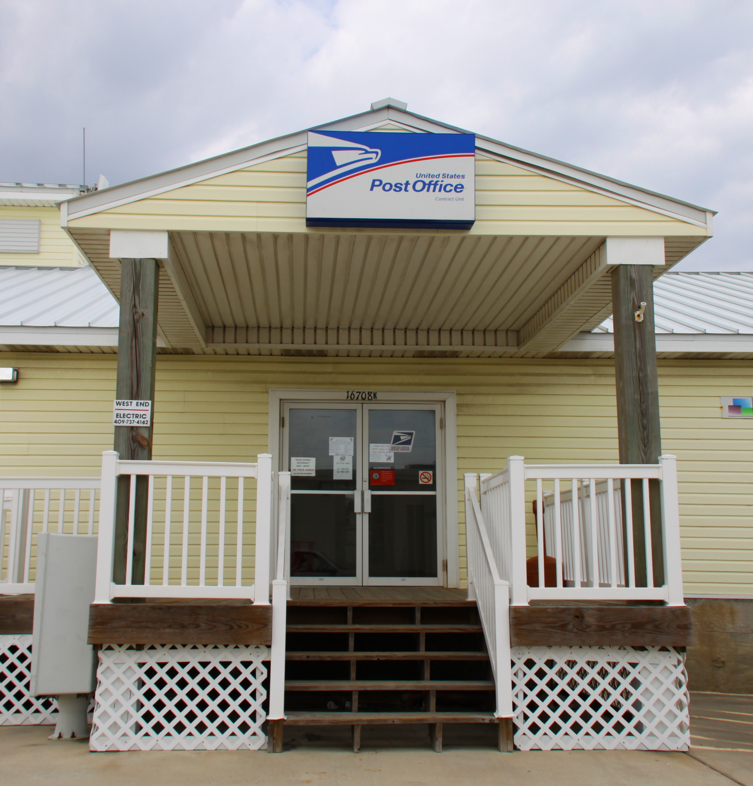 The United States Postal Service Contract Post Office in Jamaica Beach, Texas.